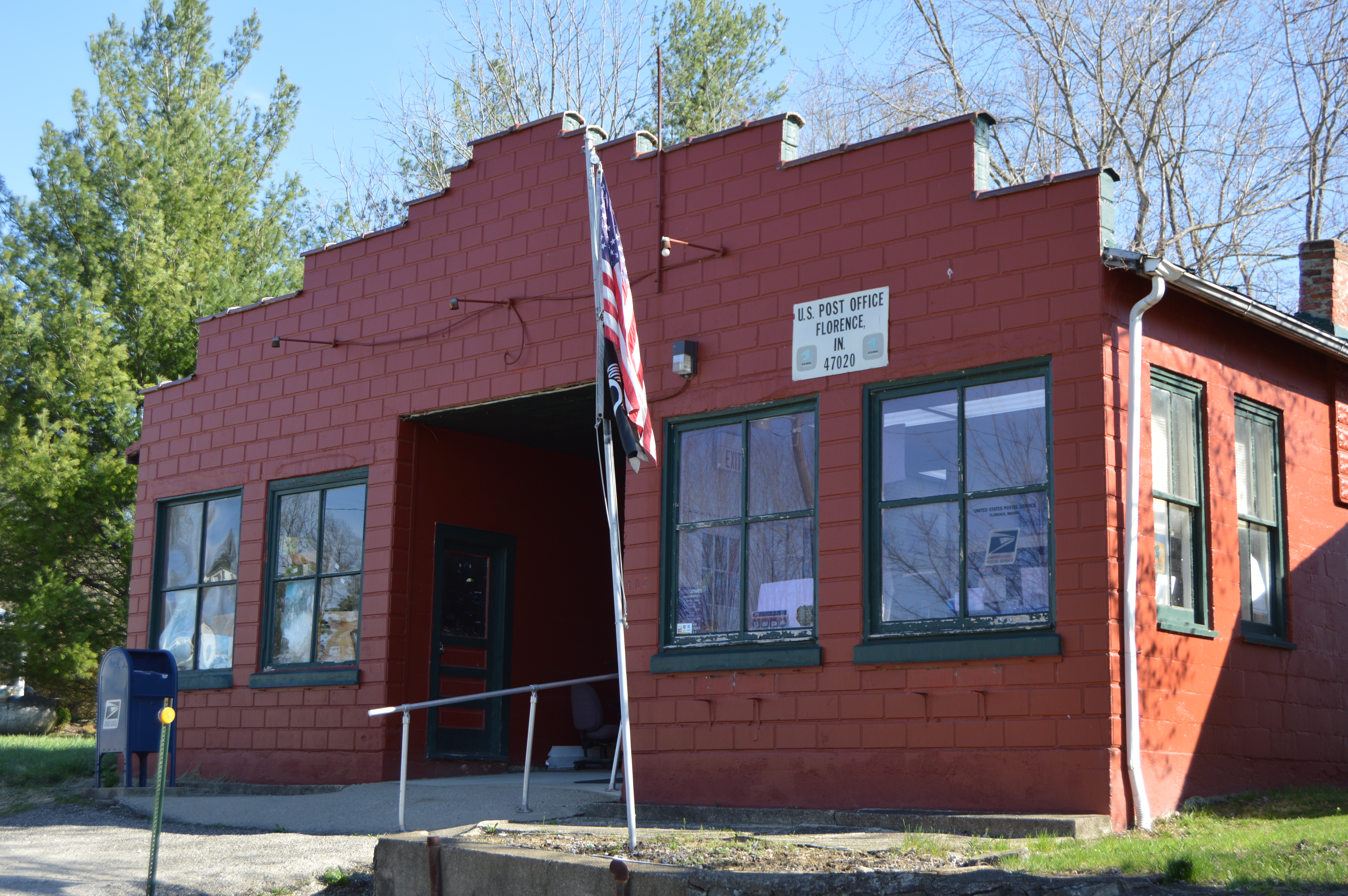 Front of the Florence post office, located at 404 Fifth Street in Florence, Indiana, United States.